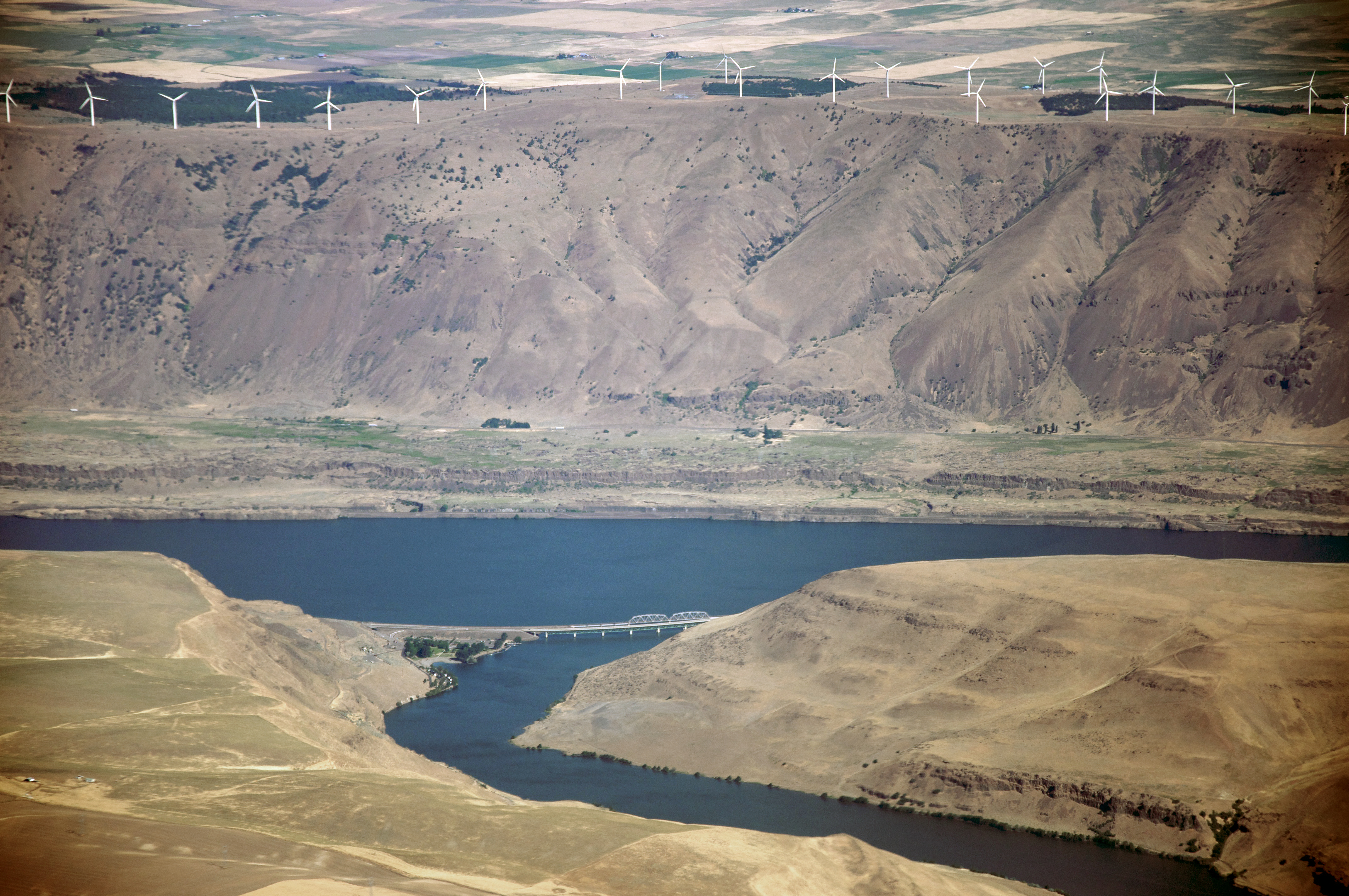 The confluence of John Day and Columbia Rivers in northern Oregon, the United States.